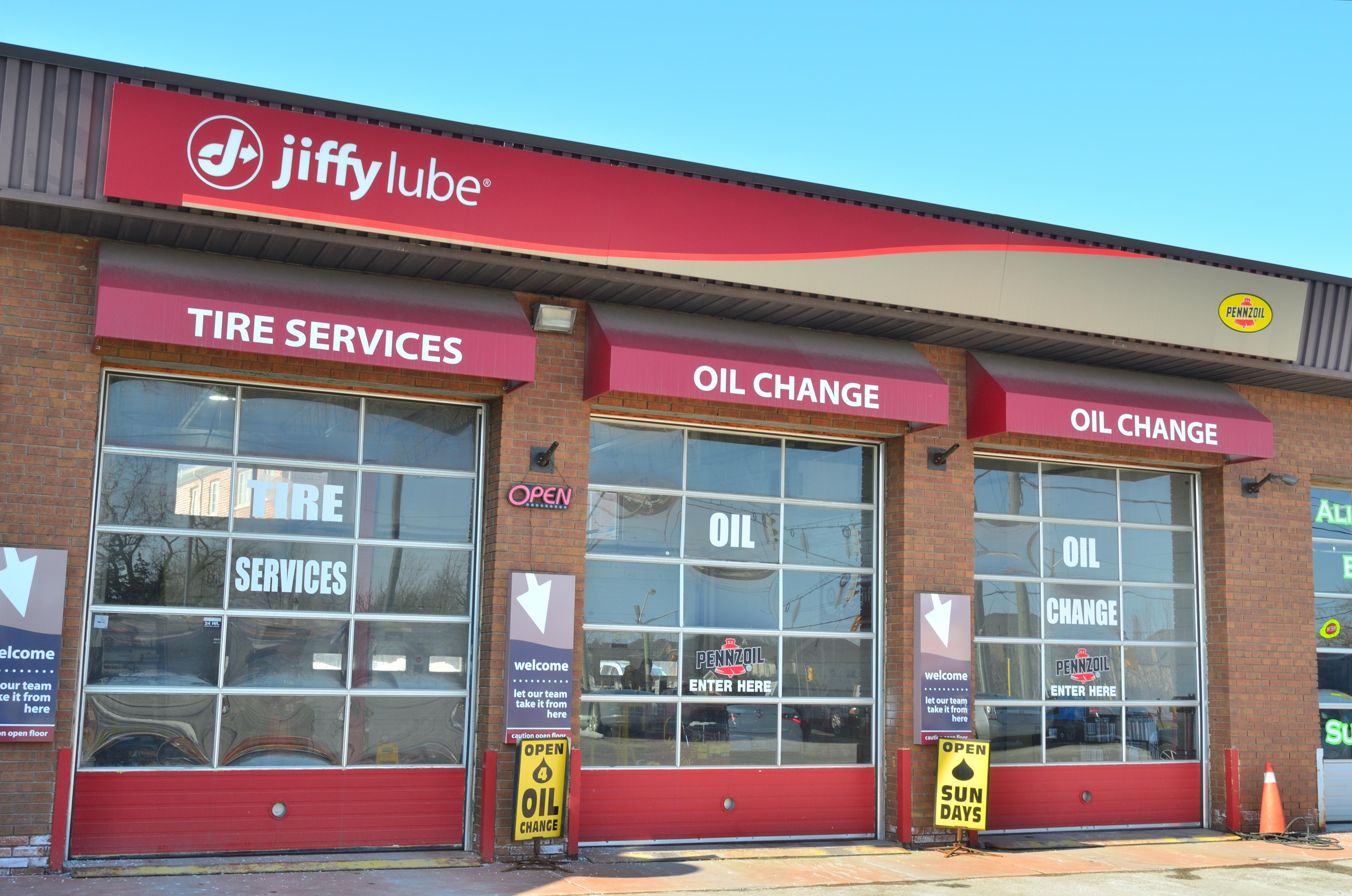 Jiffy Lube - Address: 11352 Yonge St, Richmond Hill, ON L4S 1Z7